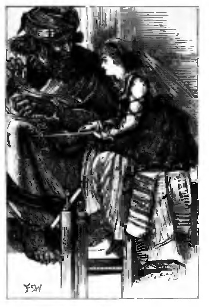 Book digitized by Google from the library of Oxford University and uploaded to the Internet Archive by user tpb.